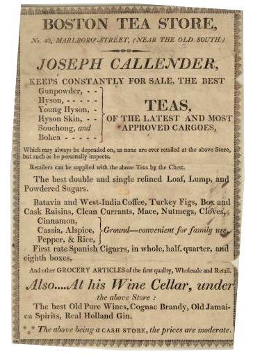 Joseph Callender, keeps constantly for sale, the best gunpowder ... teas, of the latest and most approved cargoes. ... Boston, 1811